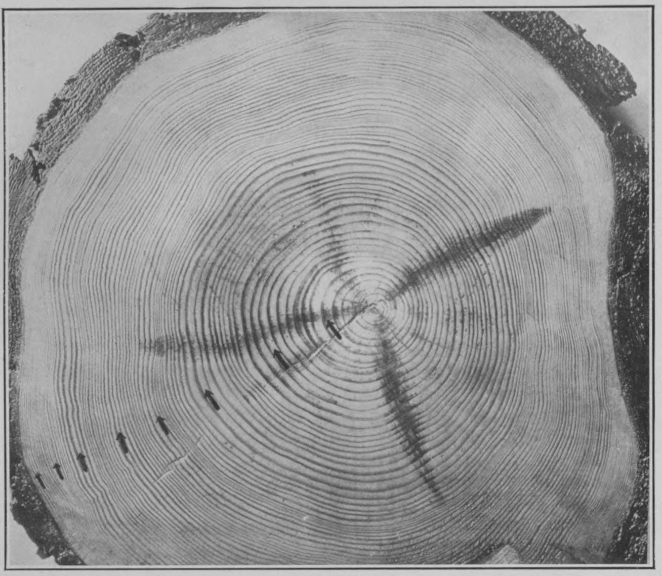 Plate 8A.—Section of Scotch pine from Eberswalde, Prussia, showing solar rhythm.